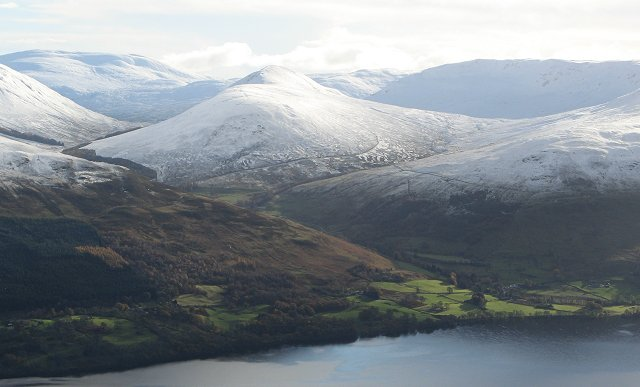 Ardtalnaig with Ben Chonzie in the background, Loch Tay in the foreground